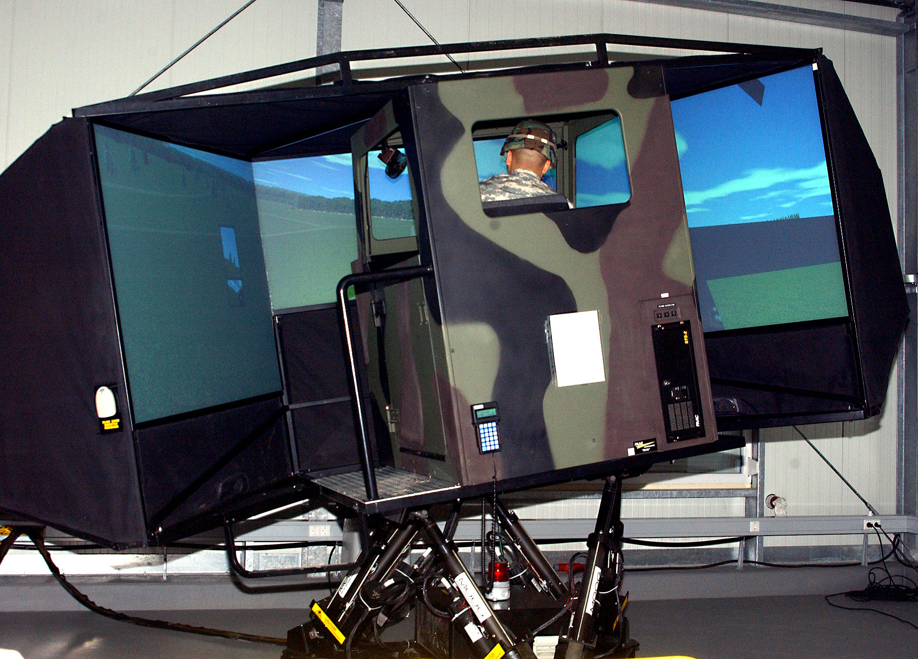 Heavy-wheeled-vehicle driver simulator; Anderson Barracks, Dexheim, Germany